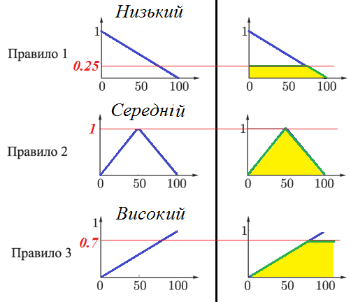 Результати активізації